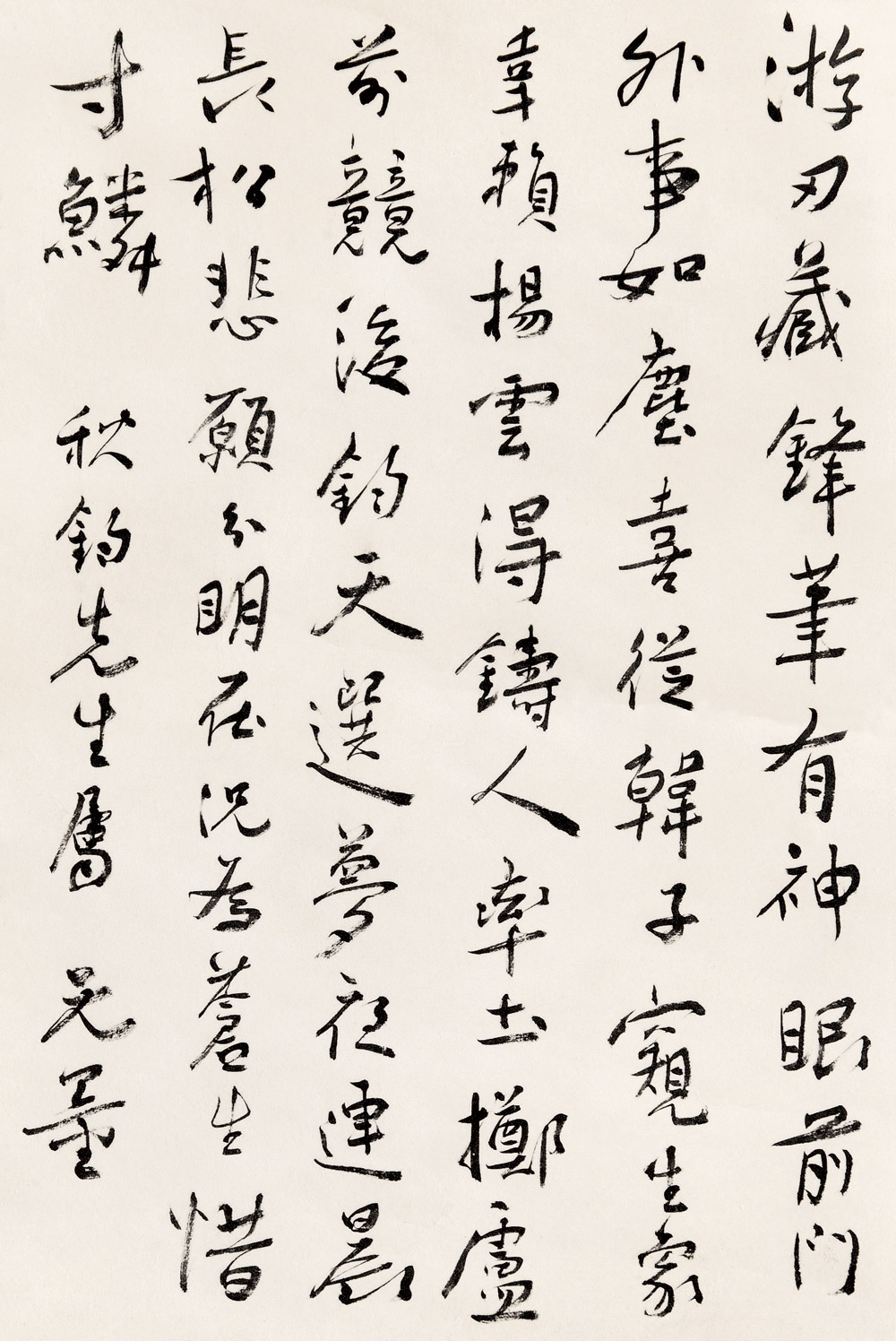 Xie wuliang